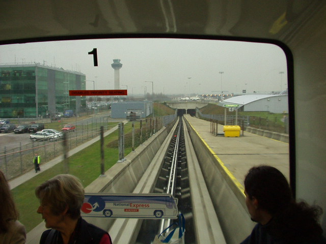 London Stansted Airport people mover system makes its way to outer terminals partly under the airfield